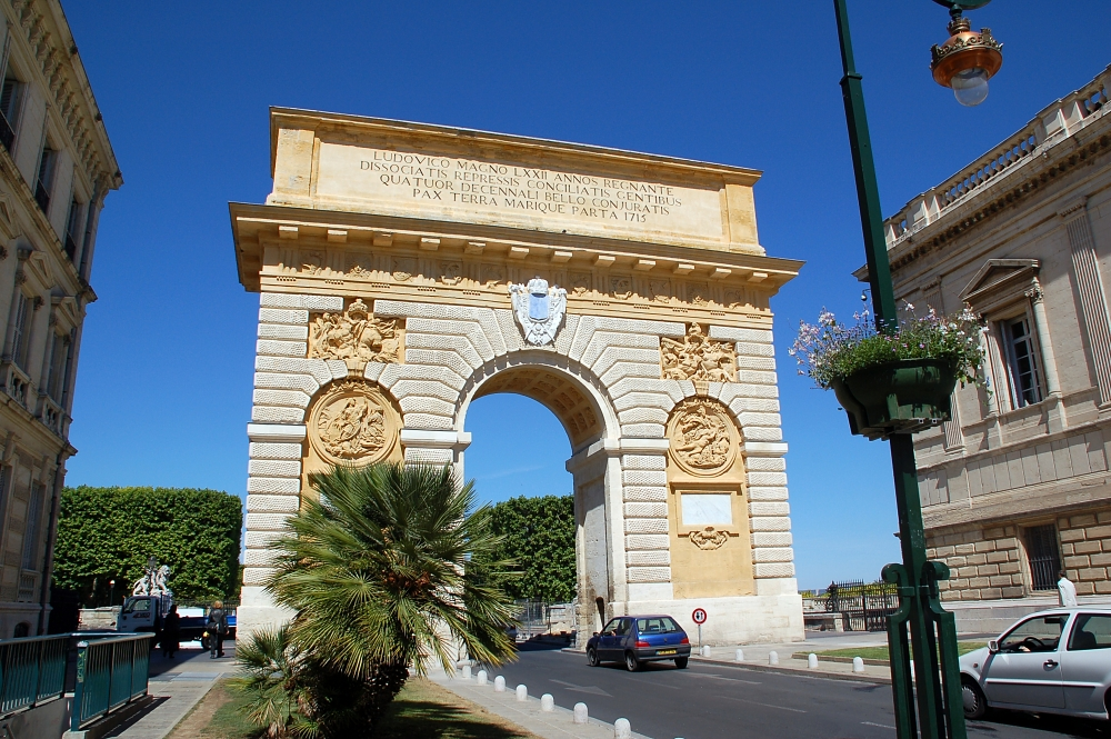 Triumphal arch Peyrou, Montpellier, Languedoc-Roussillon, France